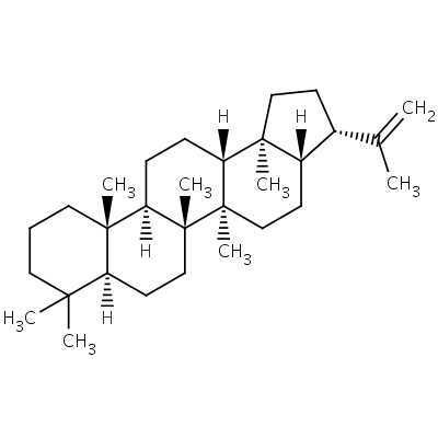 Structure of hopene